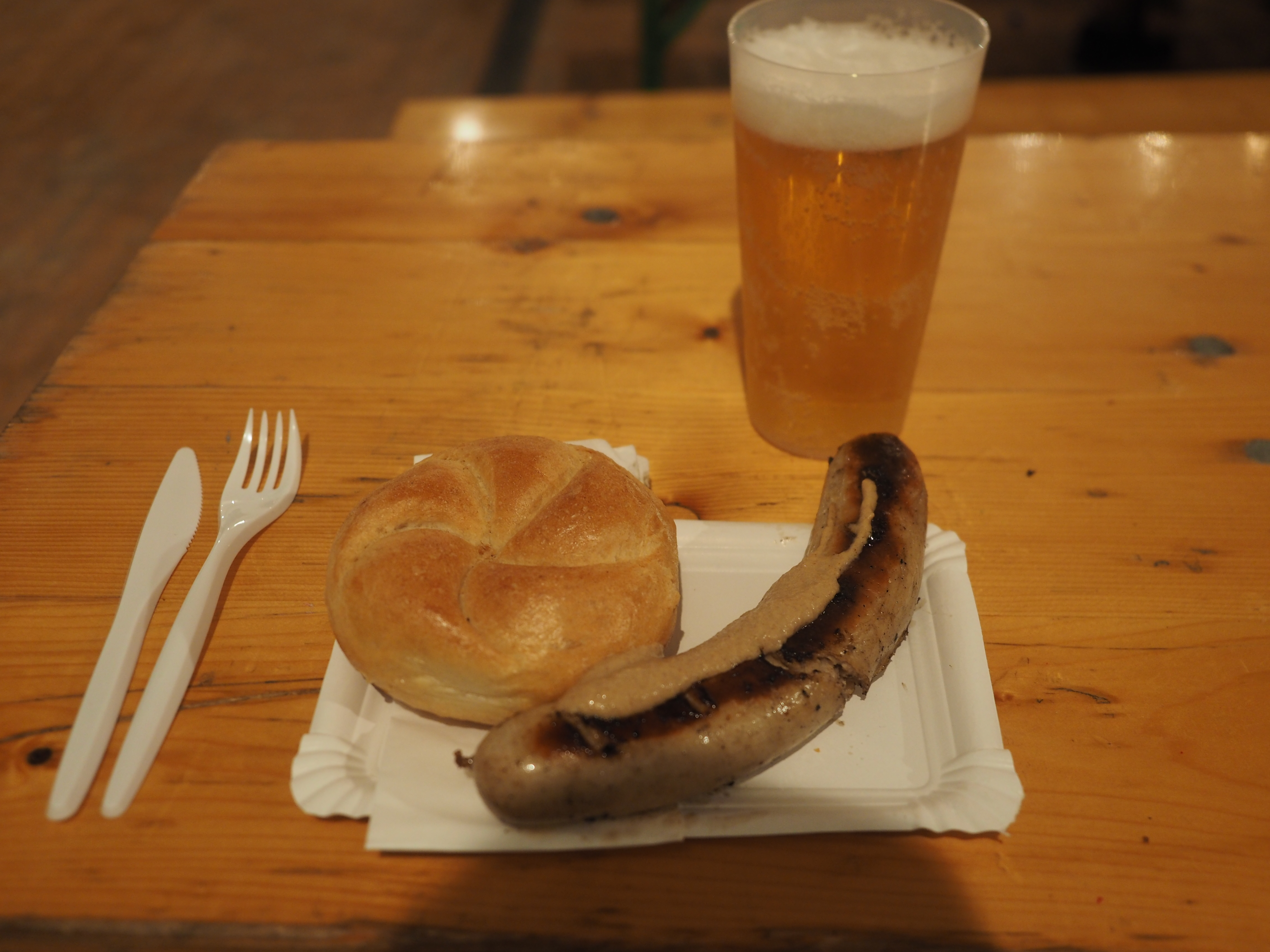 A bratwurst sausage and a bread roll, along with a glass of beer, served in Hohenemes, Vorarlberg, Austria.